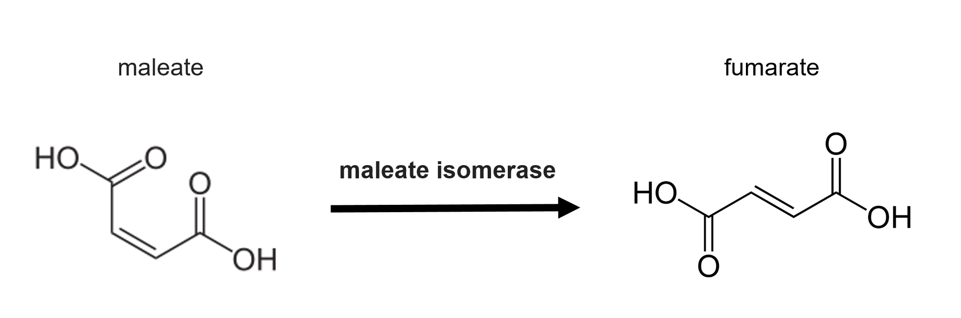 Formula of reaction of maleate to fumarate